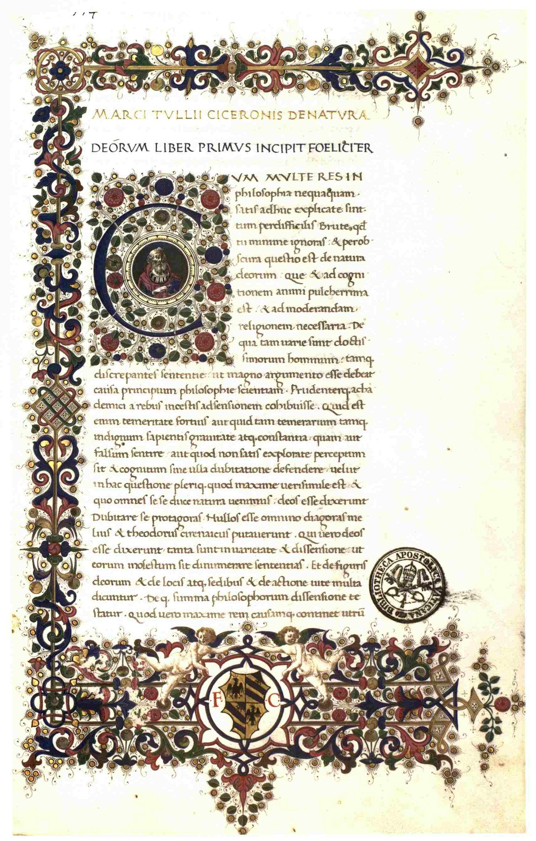 The beginning of the dialogue „De natura deorum“ in the manuscript Vatican City, Biblioteca Apostolica Vaticana, Urb. lat. 319, fol. 2r.